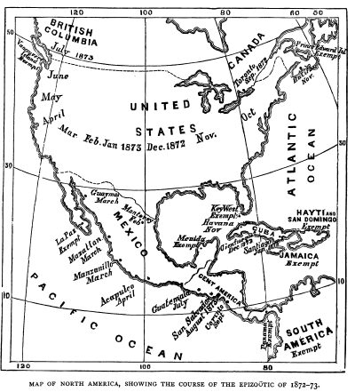 Map of North America showing horse epizootic 1872-72